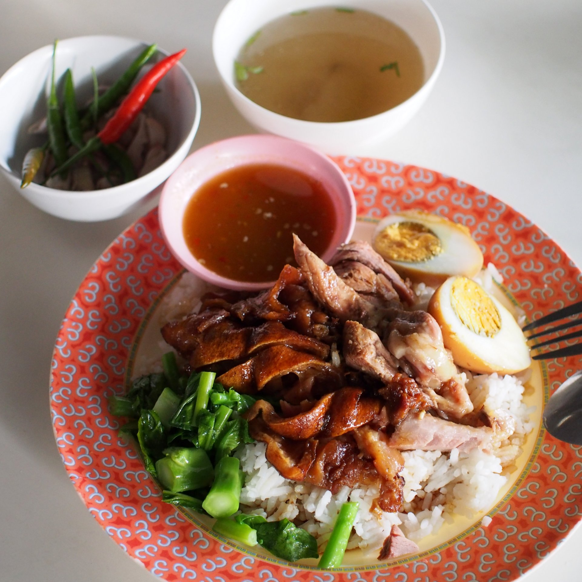 Khao kha mu (Thai script: ข้าวขาหมู) is steamed rice served with sliced pork trotter which has been simmered in soy sauce and five spice powder. It is always served with a sweet spicy dipping sauce on the side. Often a clear broth is provided on the side as well, as are fresh bird's eye chillies and cloves of raw garlic. Boiled egg is optional. In the version shown on this image, the skin is presented separated from the meat.